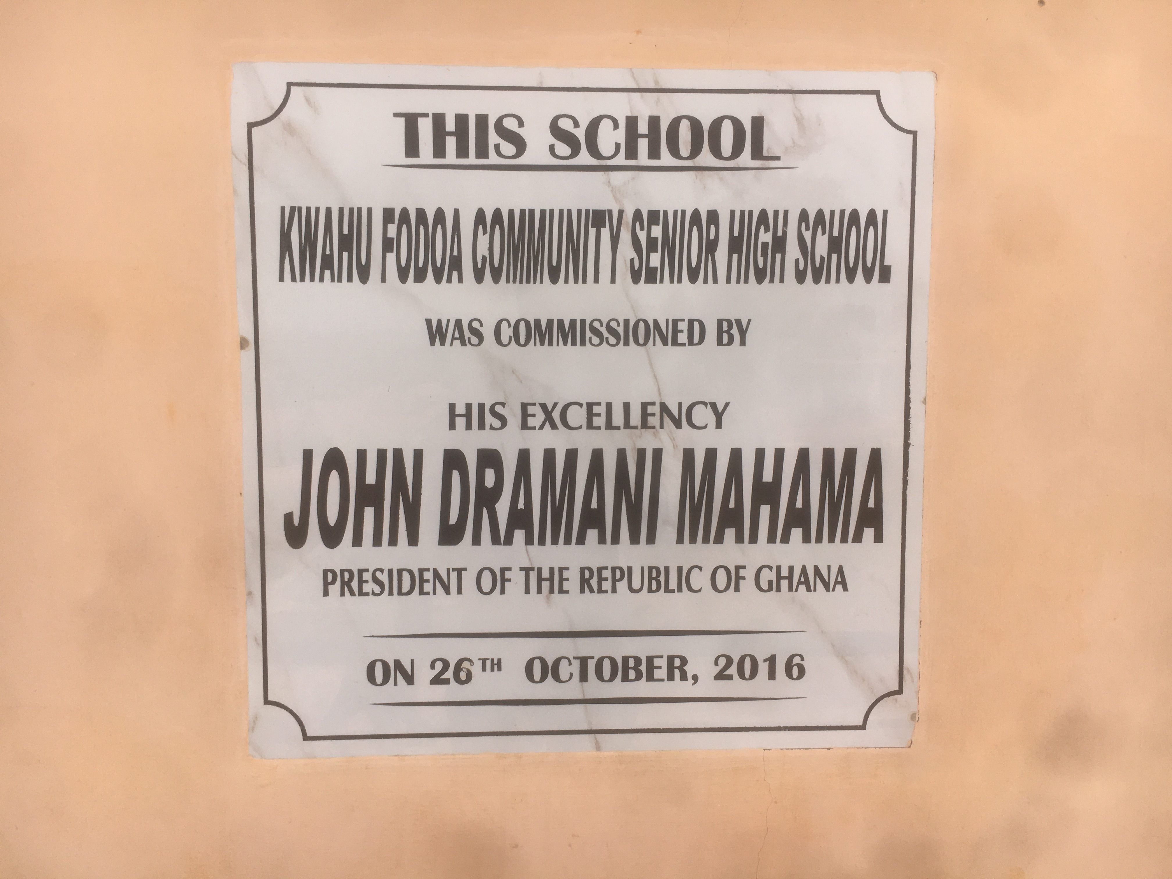 This describes when the school was built and who commissioned it